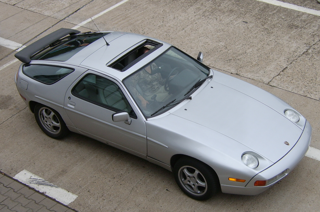 Porsche 928